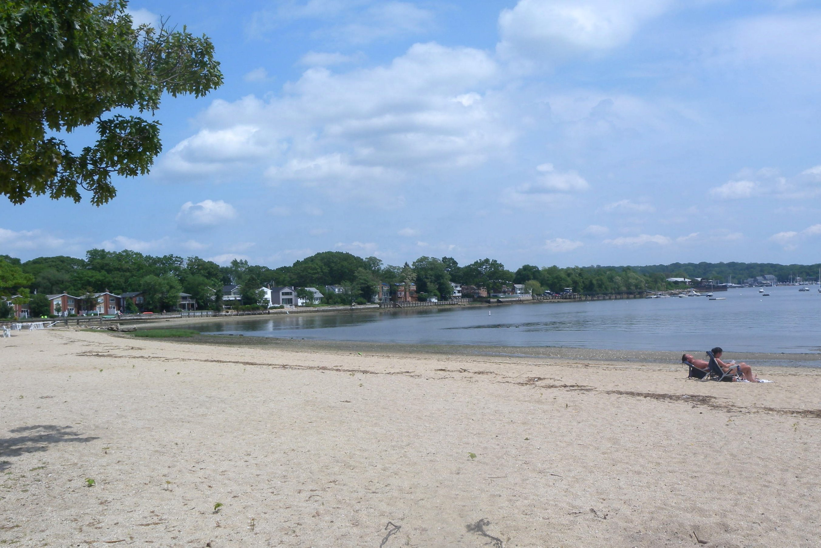 Looking east on Manorhaven Beach towards Manhasset Isle on a mostly sunny midday.